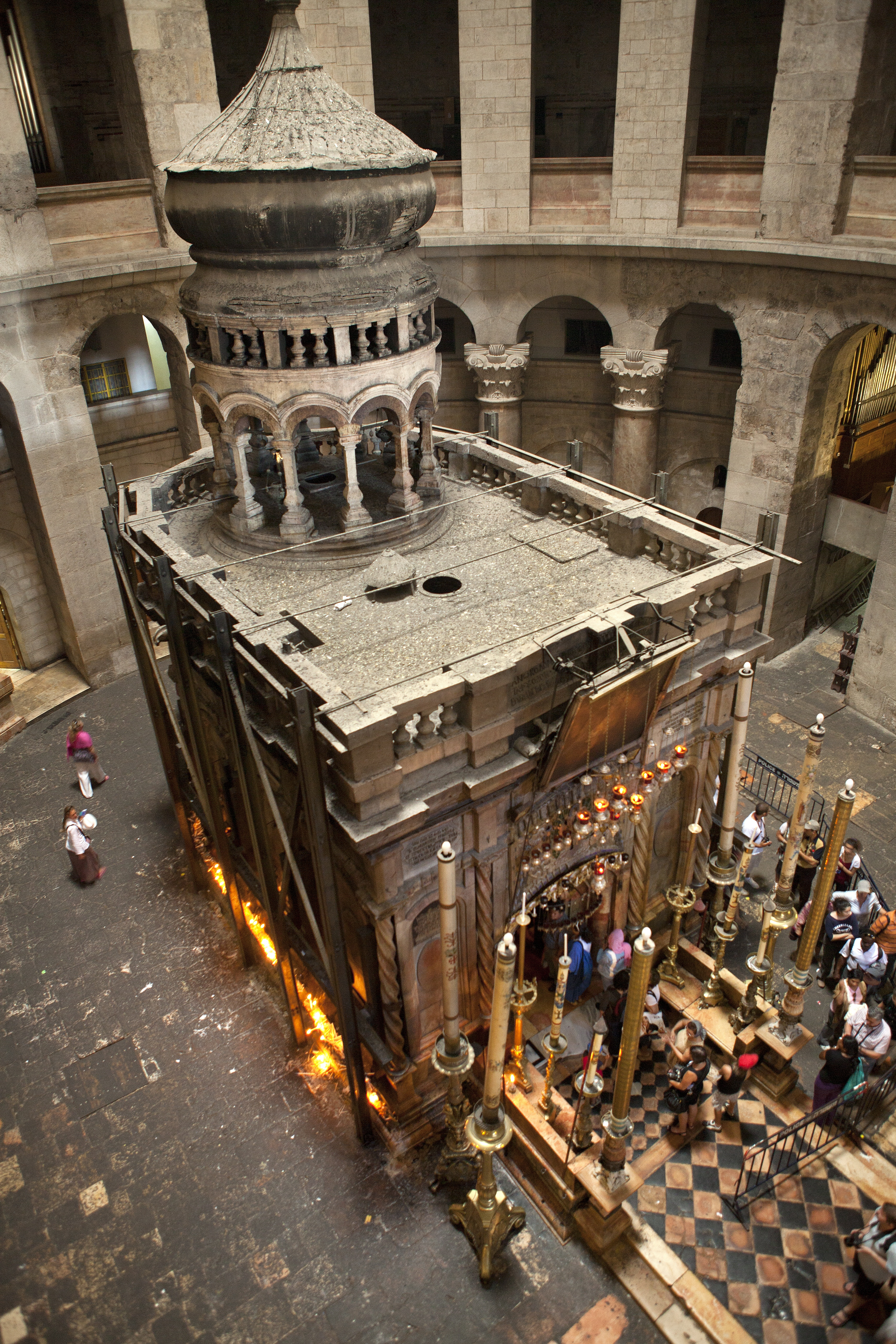 Church of the Holy Sepulchre